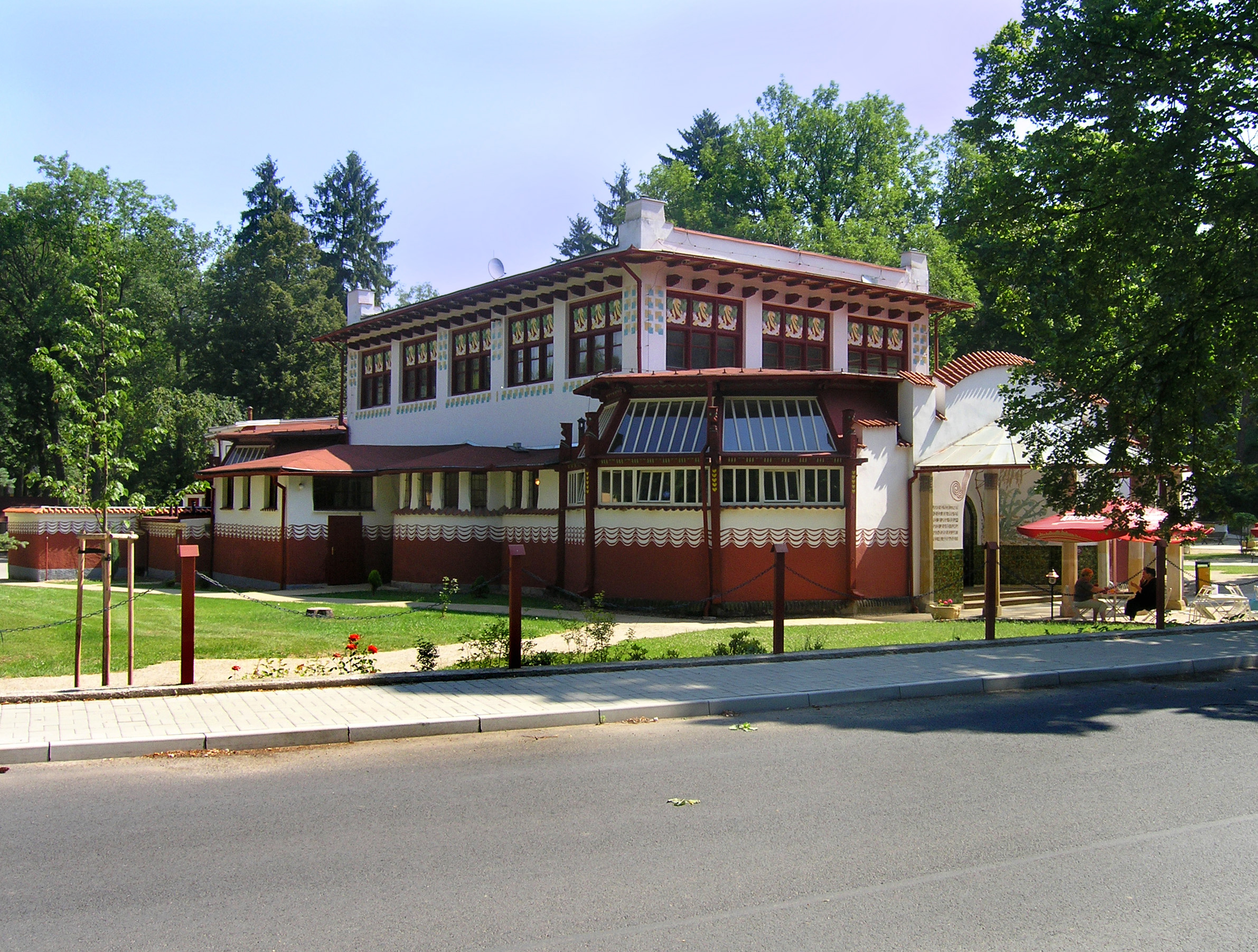 Dvorana house in Mšené Spa at Mšené-lázně village, Czech Republic